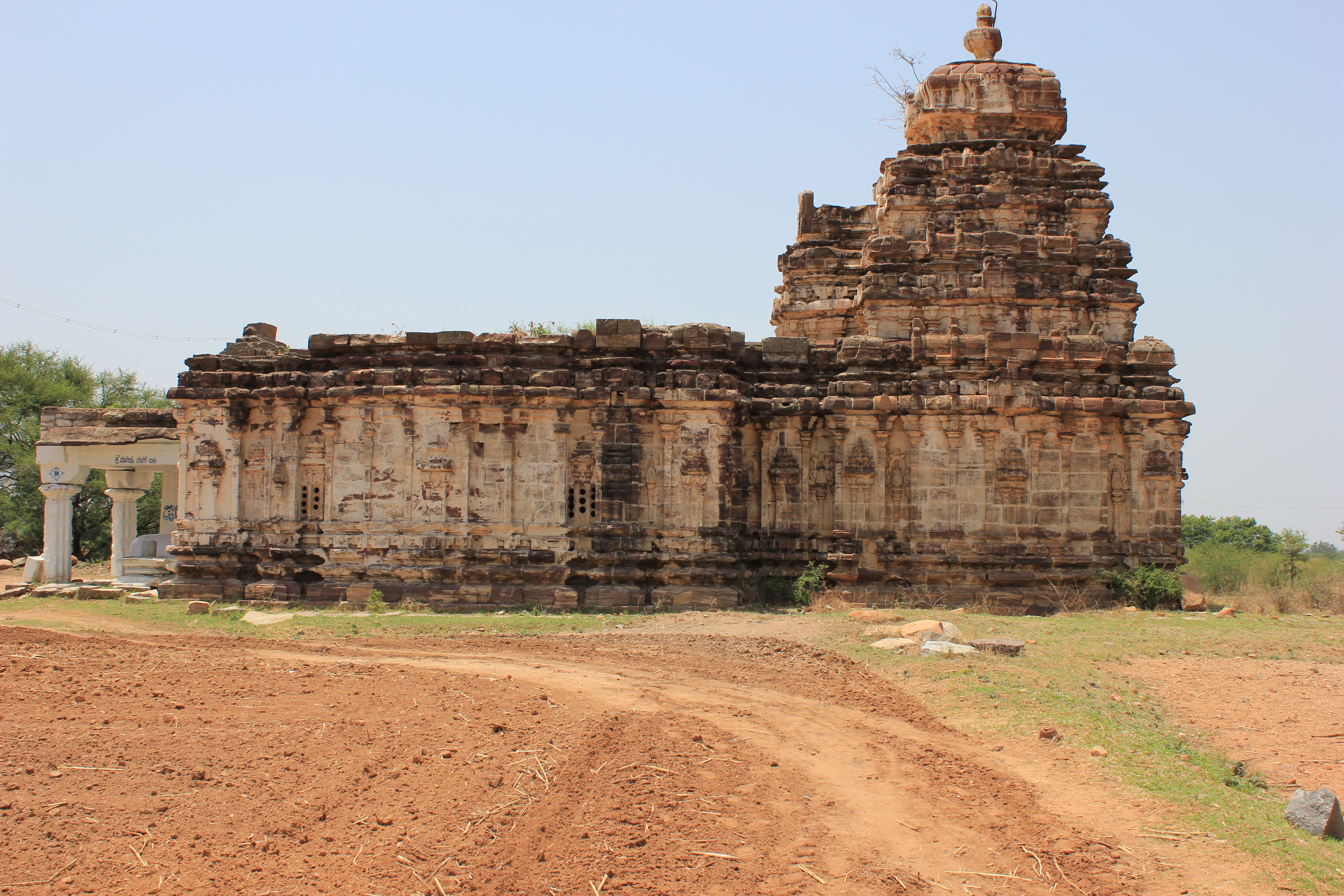 This photograph was taken by me at the Kalleshvara (also spelt Kallesvara) at Kuknur (or Kukkanur) in the Koppal district of Karnataka state, India. The temple was built during the first half of the 11th century AD by the ruling Western (Kalyani) Chalukya dynasty.